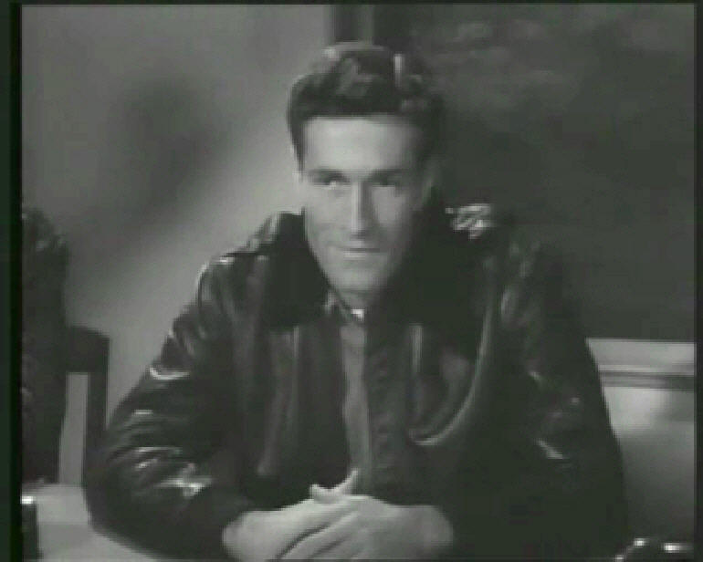 Hugh O'Brian in Rocketship X-M (cropped screenshot)